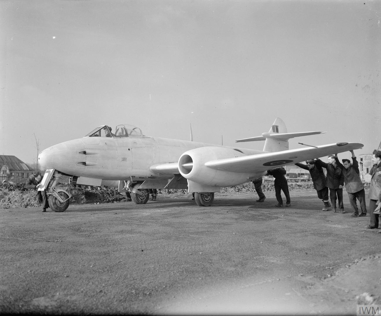 Royal Air Force- 2nd Tactical Air Force, 1943-1945. White-painted Gloster Meteor F Mark III, EE239 'YQ-Q', of No. 616 Squadron RAF Detachment is pushed to its dispersal point at B58/Melsbroek, Belgium. A flight of Meteors was detached from 616 Squadron to 2nd TAF to provide air defence against the Messerschmitt Me 262, being joined by the whole Squadron in March 1945. During the initial deployment, the Meteors were painted white to aid identification by other Allied aircraft.